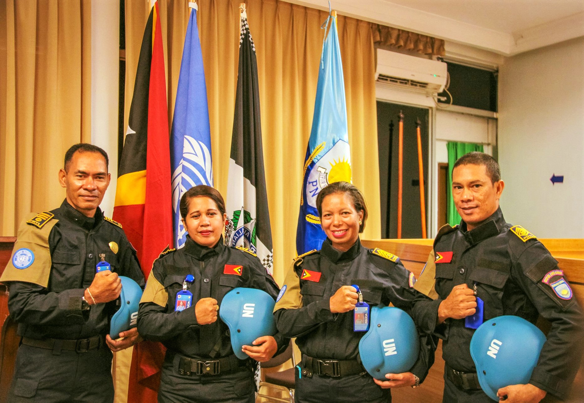 NATIONAL POLICE OF TIMOR-LESTE (PNTL) UPHOLDS GENDER PARITY WHILE SENDING OFF PEACE MISSION TO SOUTH SUDAN. The four members who departed on Tuesday, 04 February, are: Chief Inspector Mouzinho Correia, Chief Inspector Maria Fatima, Sergeant Chief Guilermina Santos, Sergeant Chief Ofelino Pereira.